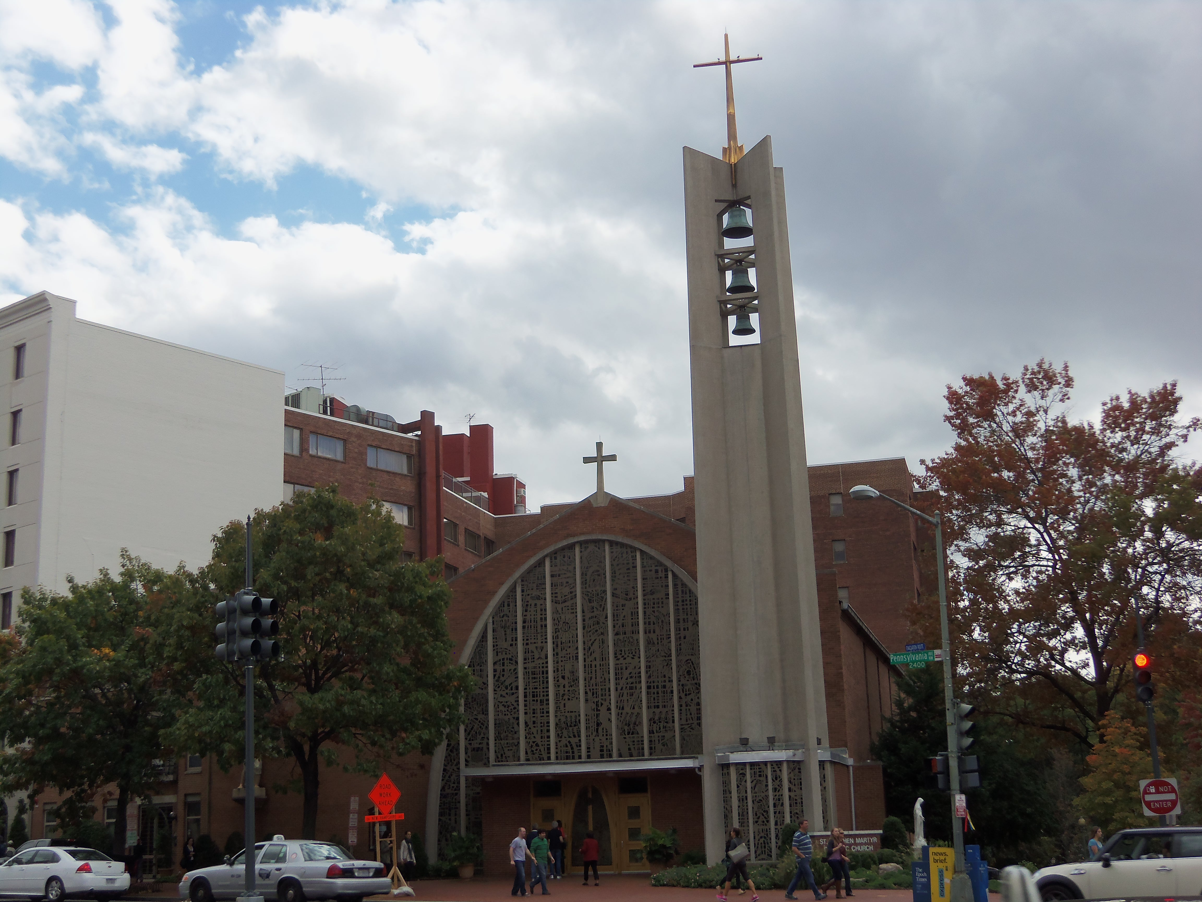 St. Stephen Martyr Catholic Church on Pennsylvania Avenue NW in Washington, DC.